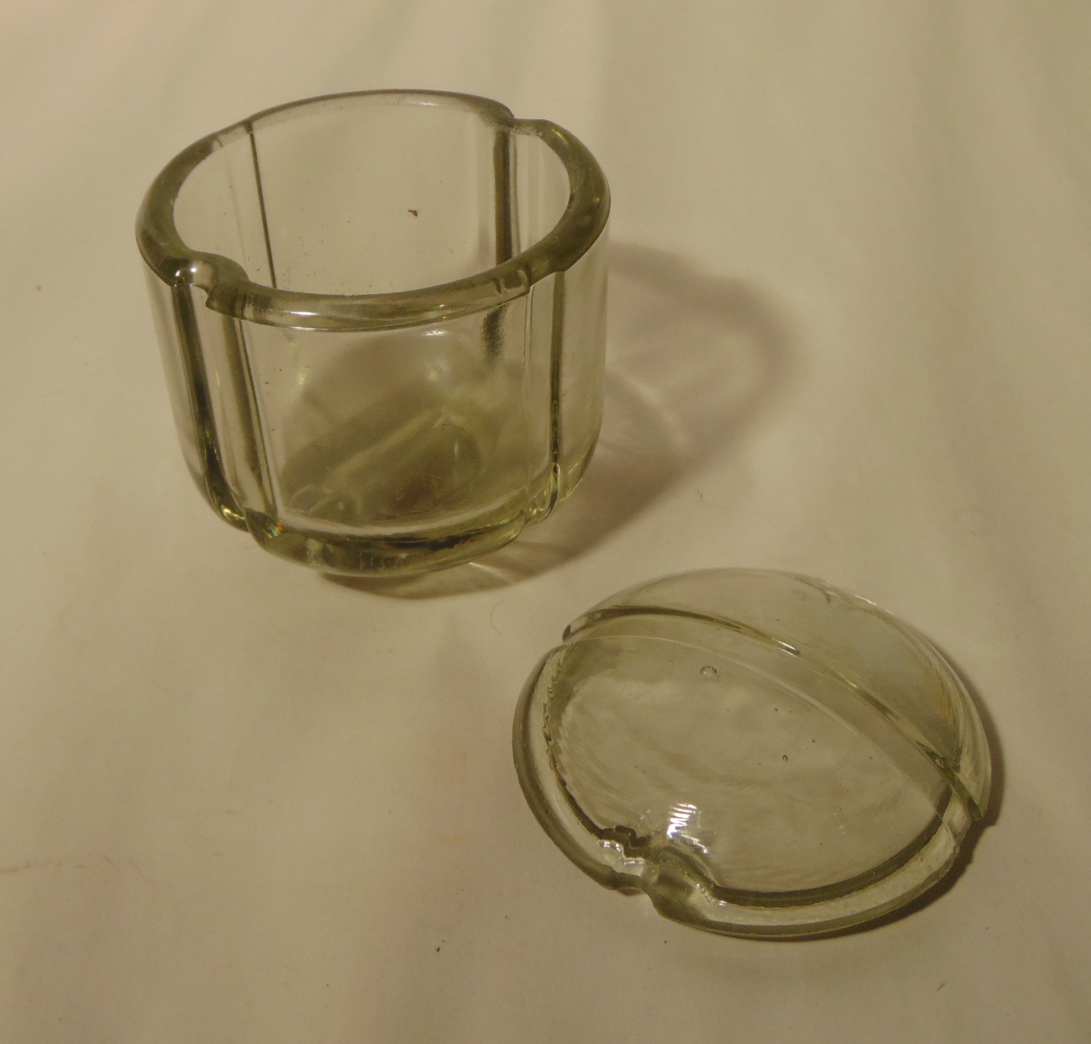 German glass mine from the Second World War Photographed in the collection of the National Liberation Museum 1944-1945, the Netherlands, archive number 2.2.700